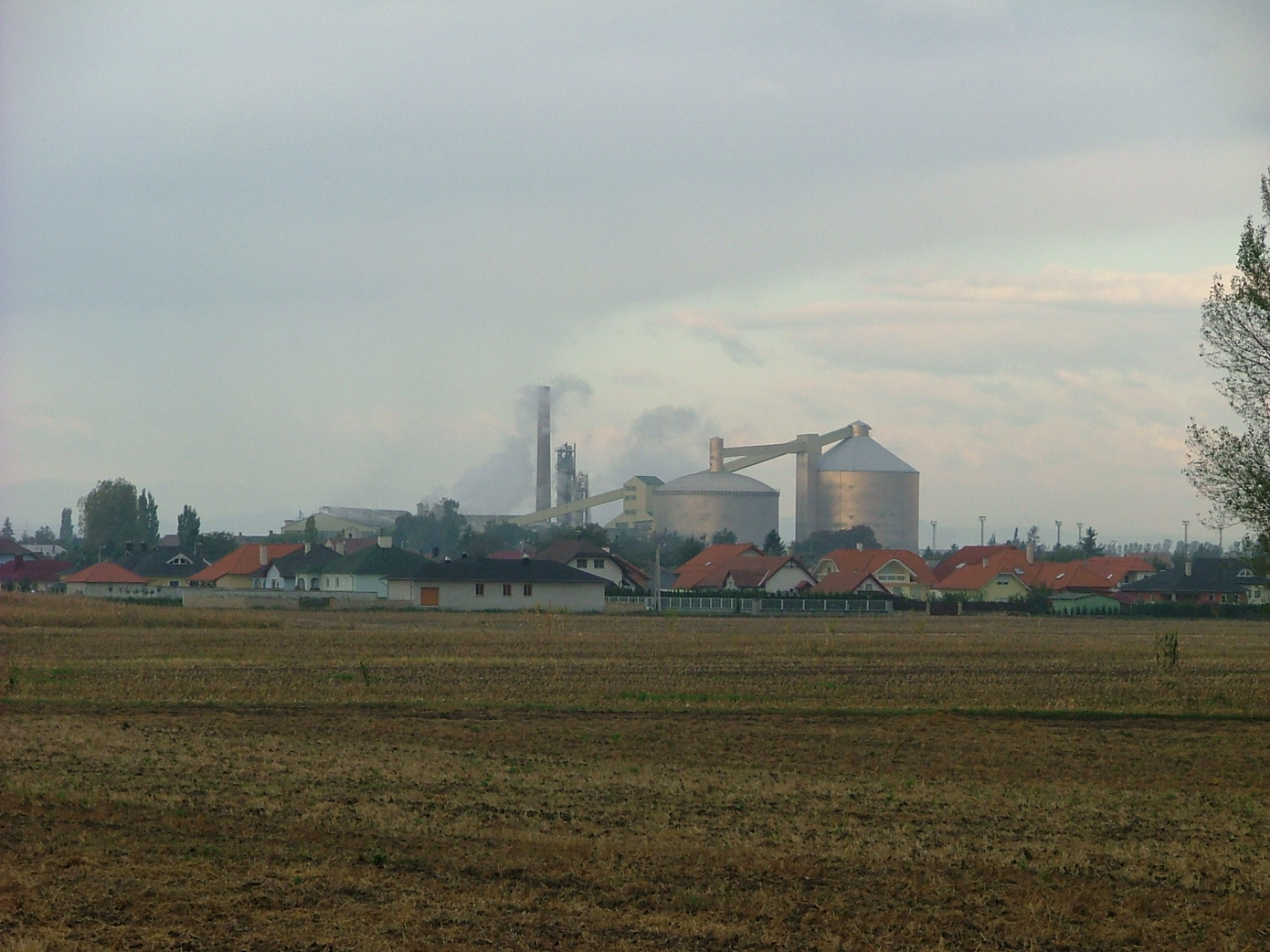 Sugar factory in Petőháza, Hungary